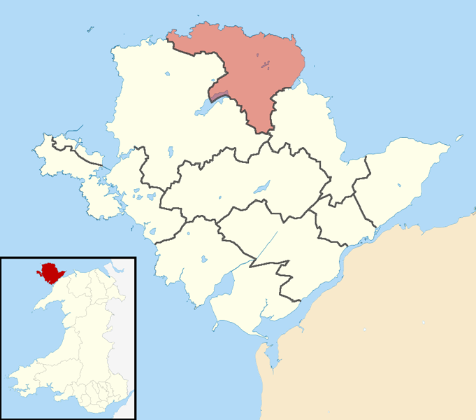 Location map of Twrcelyn electoral ward on the island of Anglesey / Ynys Mon